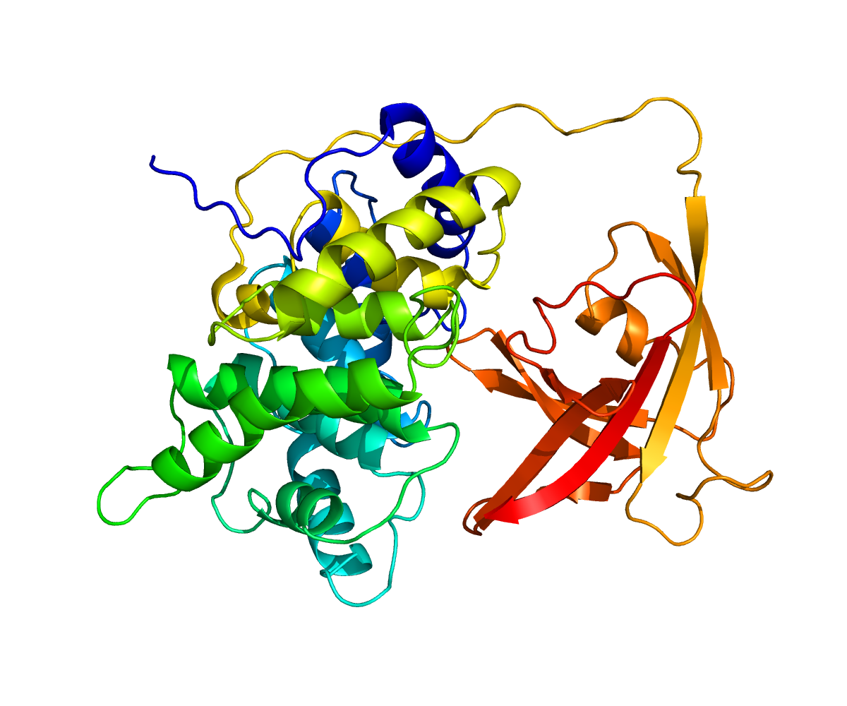 Structure of protein GIF.Based on PyMOL rendering of PDB 2CKT.